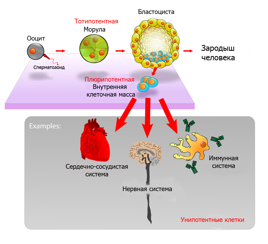 english version with russian text